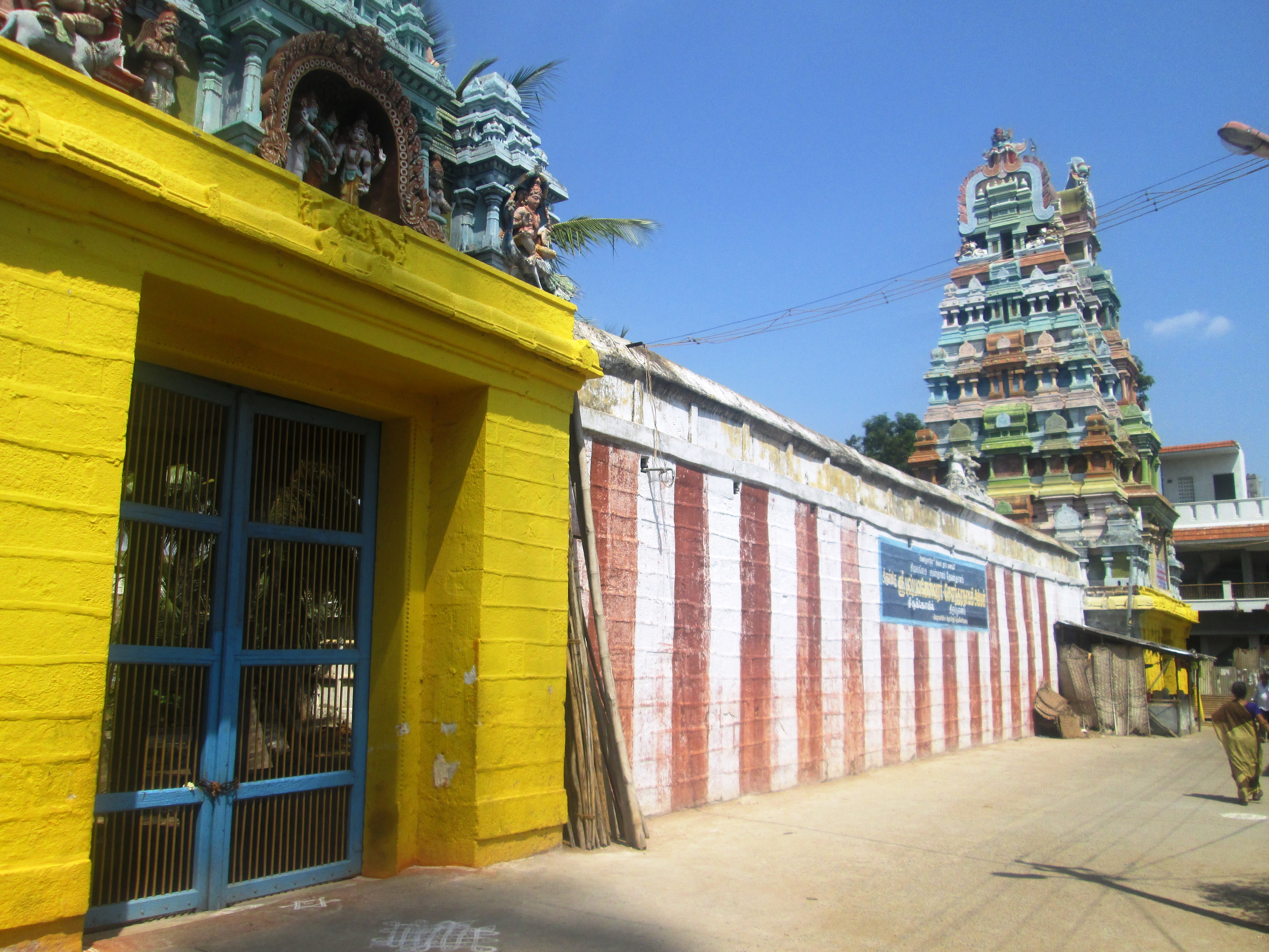 This is a temple of Thirupuvananathan at Thirupuvanam in Sivagangai District, Tamilnadu, India